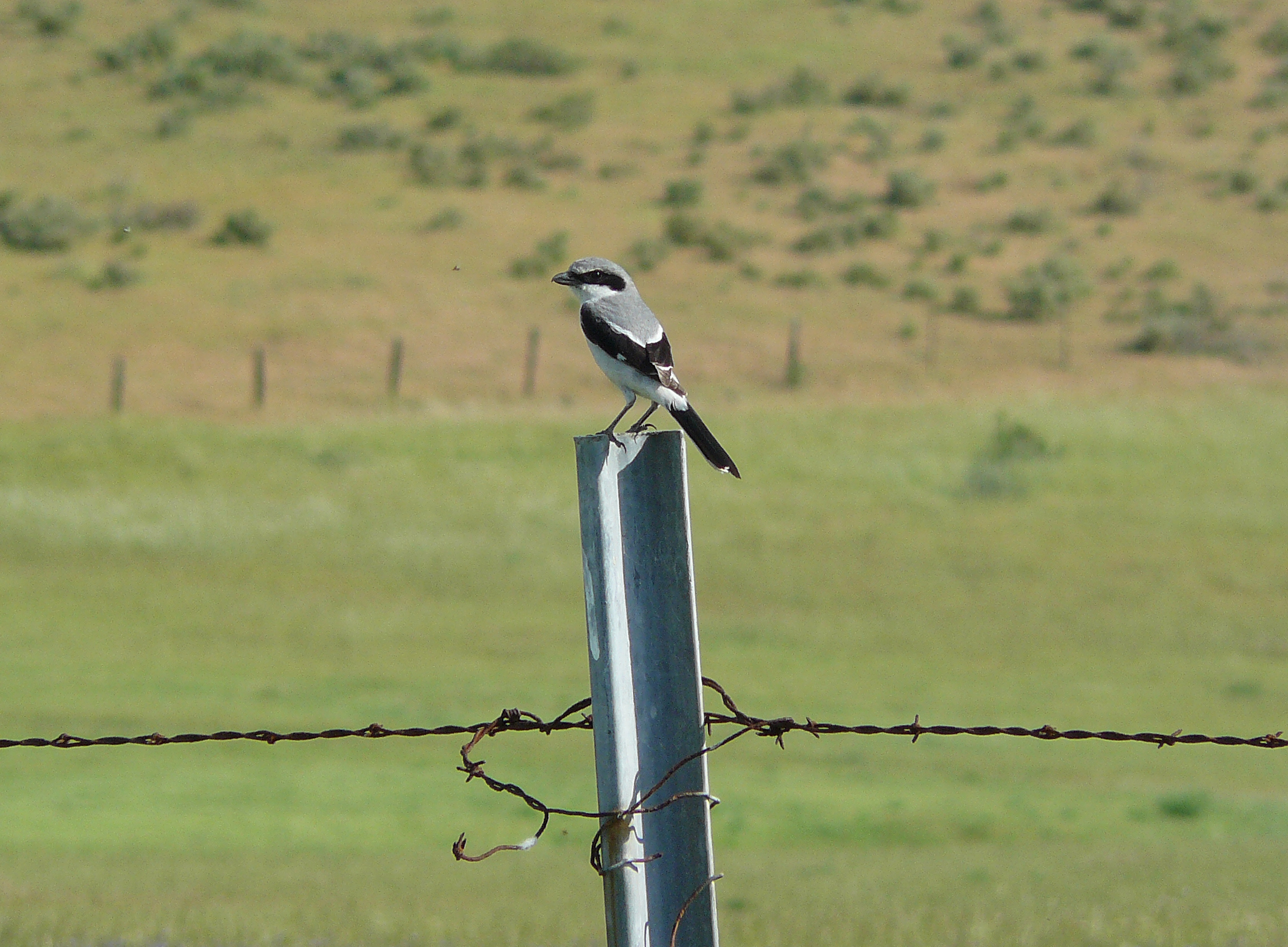 Loggerhead Shrike in Laguna Lake Open Space, San Luis Obispo, California.